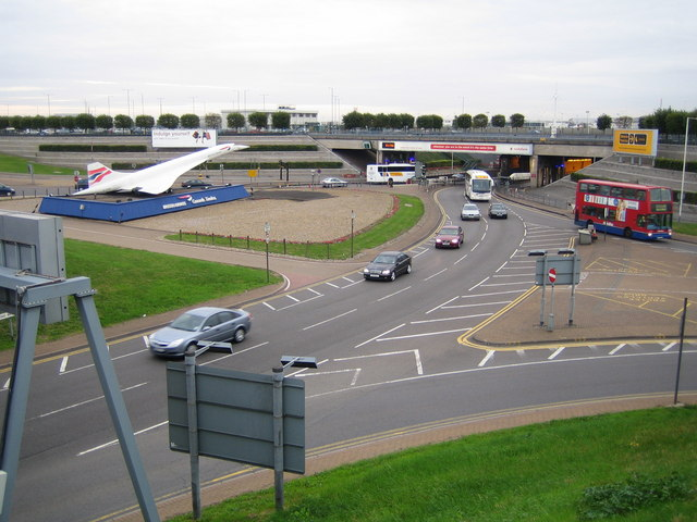 Heathrow Airport. This one third scale model of Concorde is at the northern end of the vehicle tunnel to Terminals 1, 2 and 3 at Heathrow, and at the southern end of the M4 Motorway spur. The right hand one of the two white coaches is emerging from the northbound tunnel from the Terminals. The airport itself opened for civilian use in 1946. The photo was taken from the A4 Bath Road overbridge.